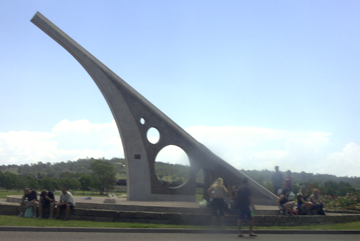 A large sundial at Singleton